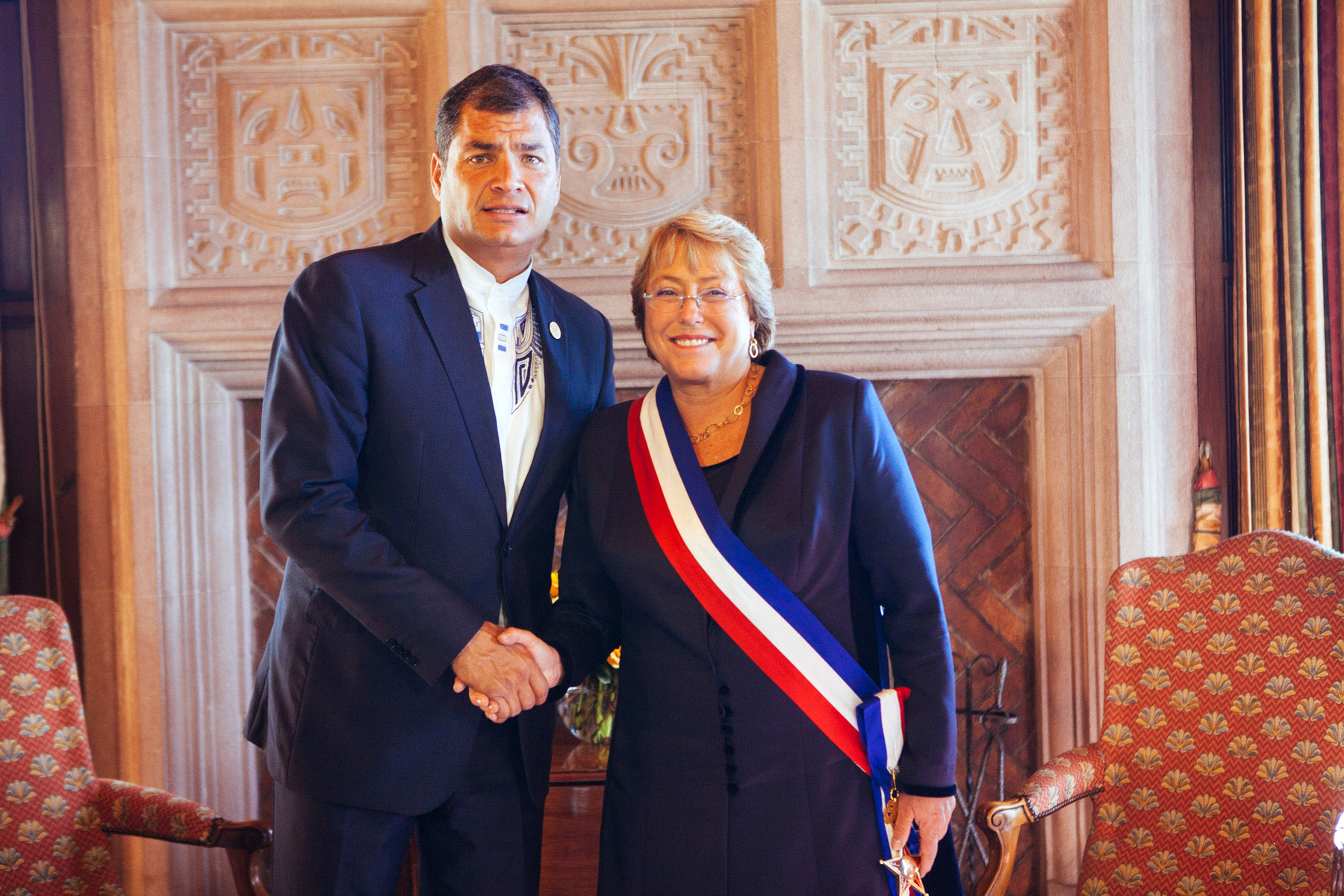 President of Ecuador and President of Chile Michelle Bachelet